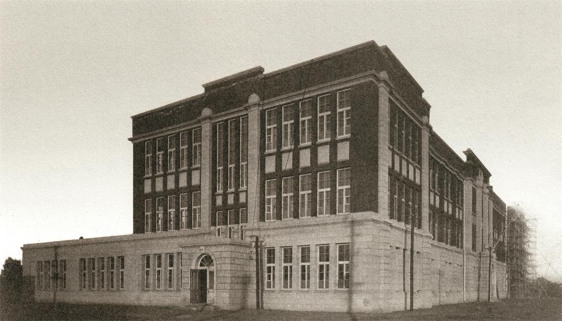 Manchuria pedagogical college construction almost finished